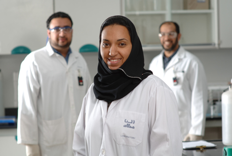 Aluminium Bahrain (Alba)